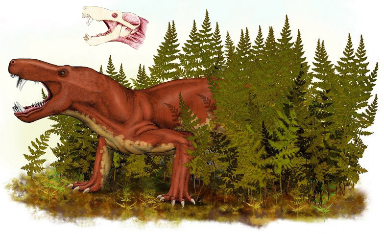 A reconstruction of Pristerognathoides minor, formerly Pristerognathus minor.